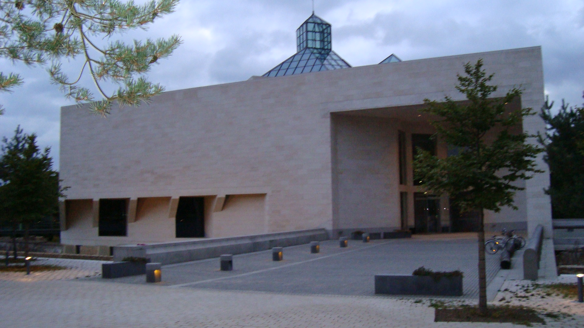 Musee D'art moderne